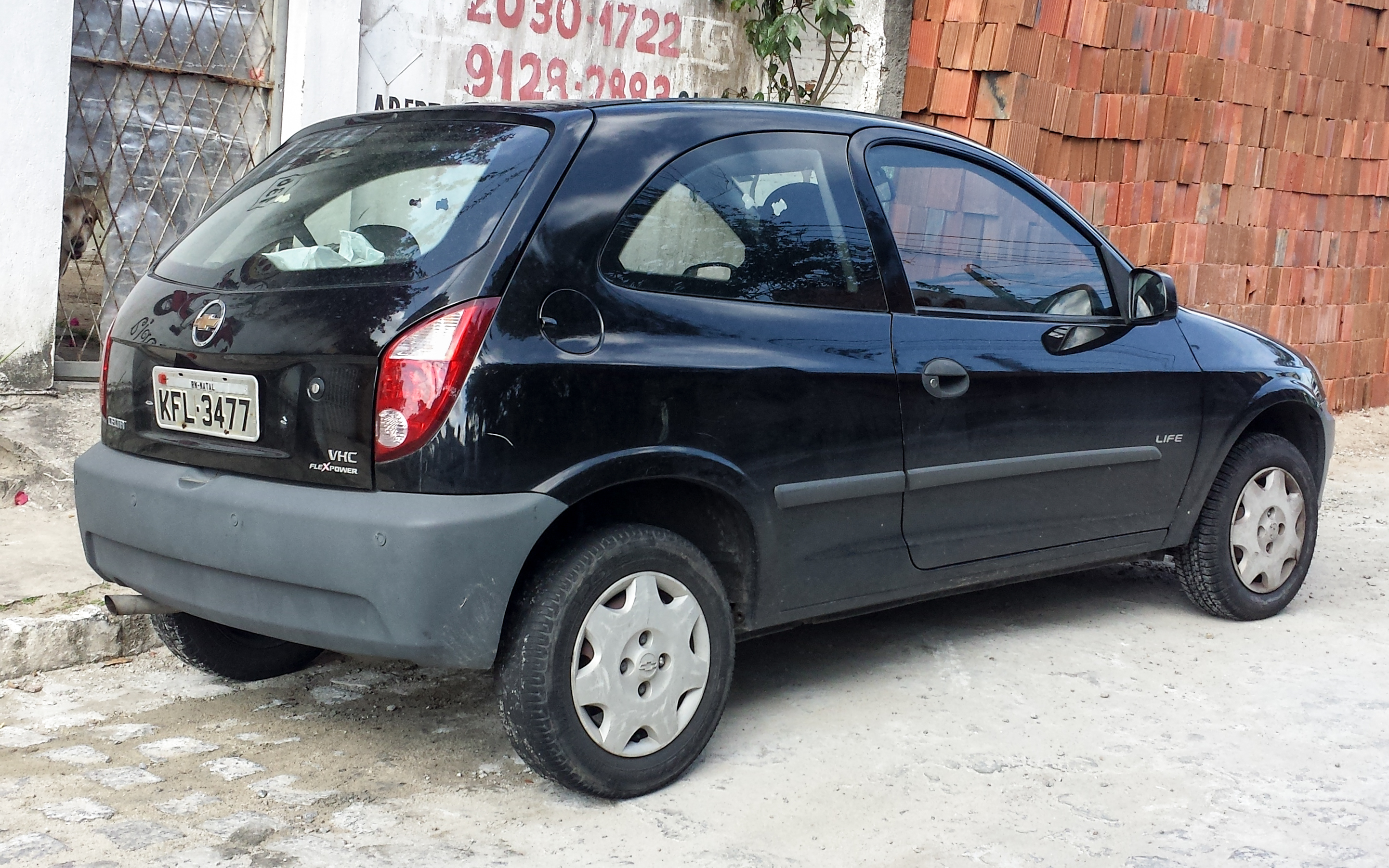 Chevrolet Celta Life three door hatchback